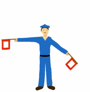 Letter S of the nautical semaphore flag signalling system Source: Martin Hawlisch (User:LosHawlos) My own drawing done in gimp First uploaded to de: in jun-2004